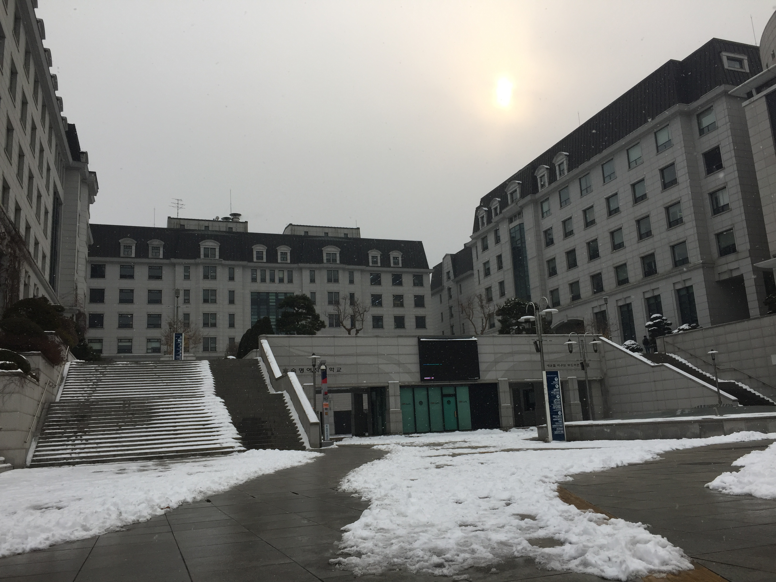 Sookmyung Women's University during Winter.